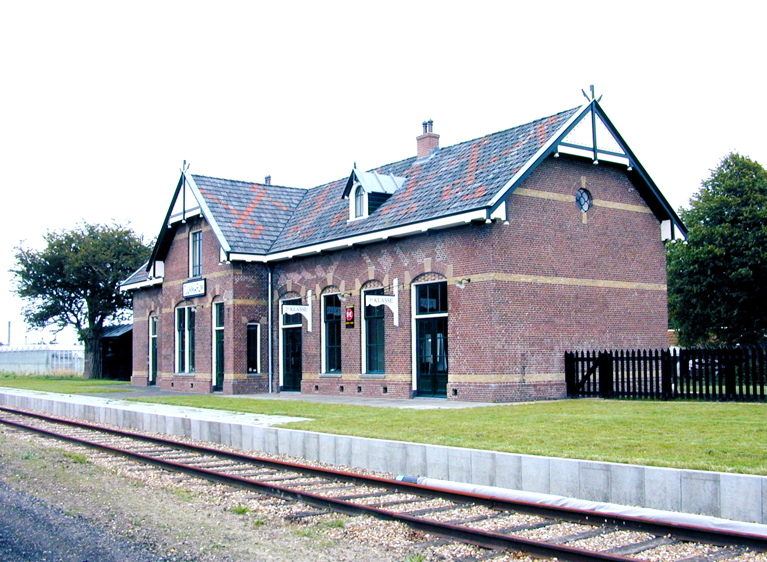 A view of Tzummarum station building, following restoration.